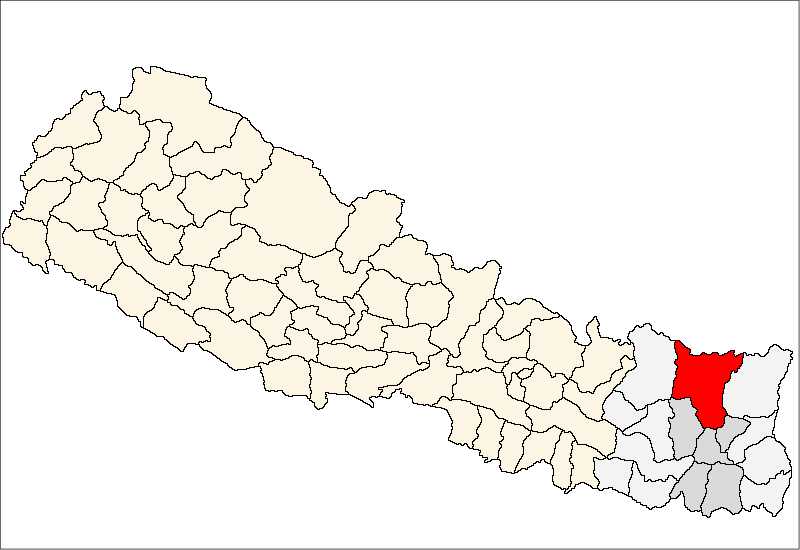 FrenchCarte de localisation dudistrict de Sankhuwasabha(wp-FR),au Népal (wp-FR).EnglishLocation map ofSankhuwasabha District(wp-EN),in Nepal (wp-EN).